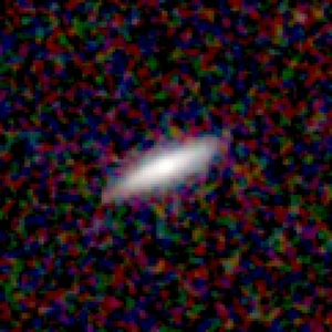 Galaxy NGC 423